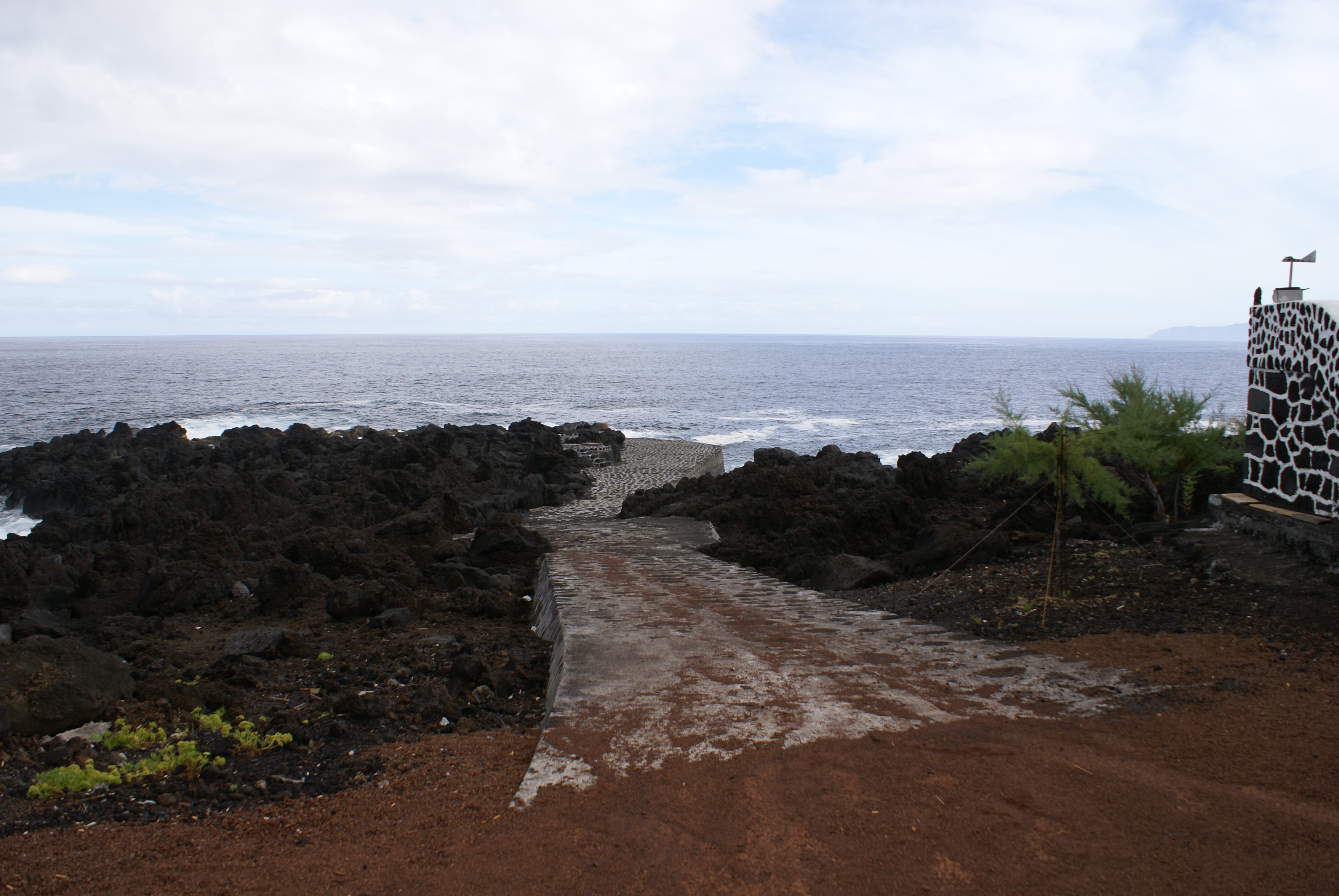 The fishing port of Lajido, civil parish of Santa Luzia, municipality of São Roque do Pico (Azores), Portugal